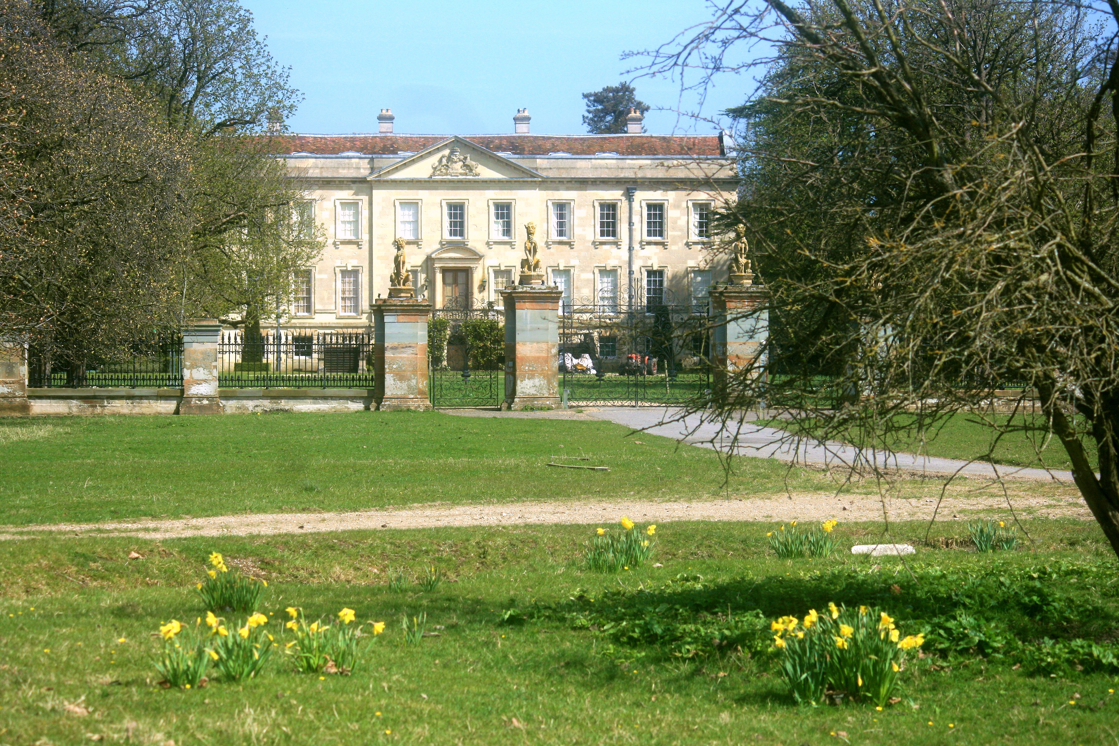 Thame Park House. Seen as "Tye House" in the Midsomer Murders episode "Death's Shadow".